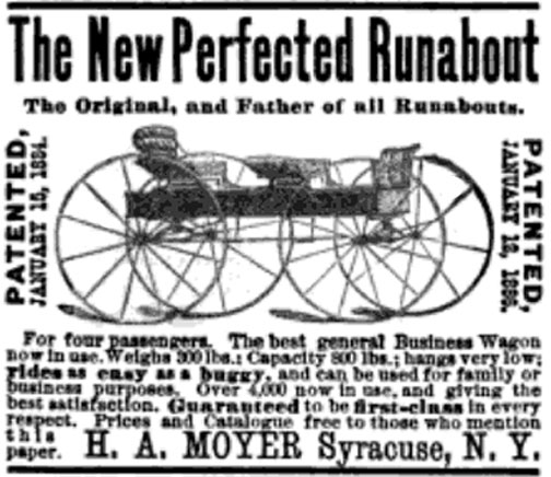 Moyer Runabout Carriage